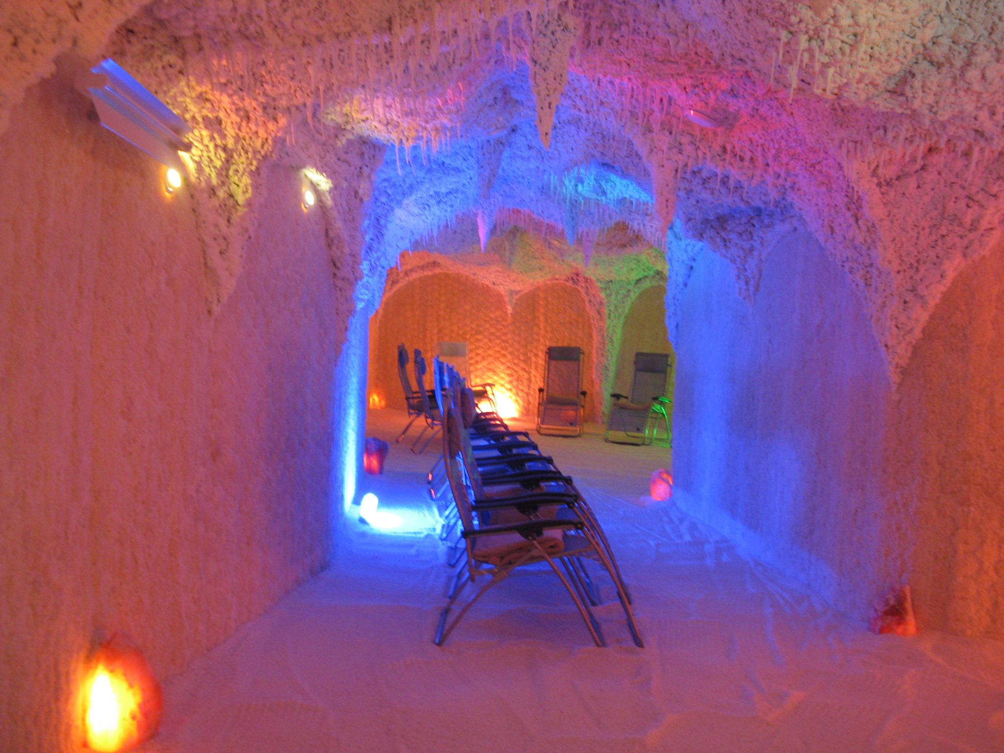 Salt therapy room, Bad Soden-Salmünster (Germany)